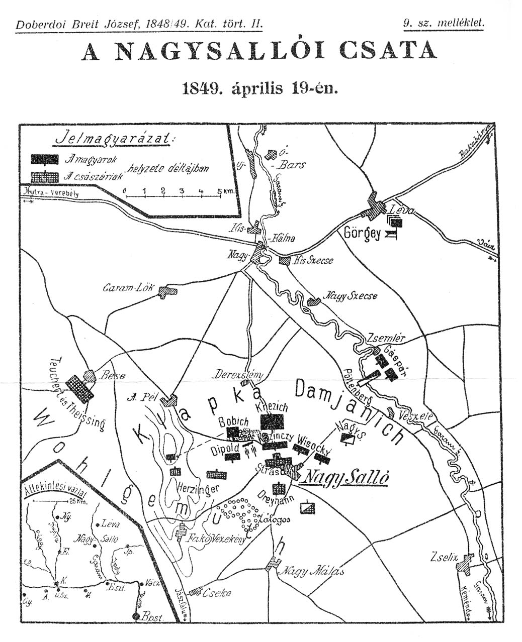 The Battle of Nagysalló around noon.